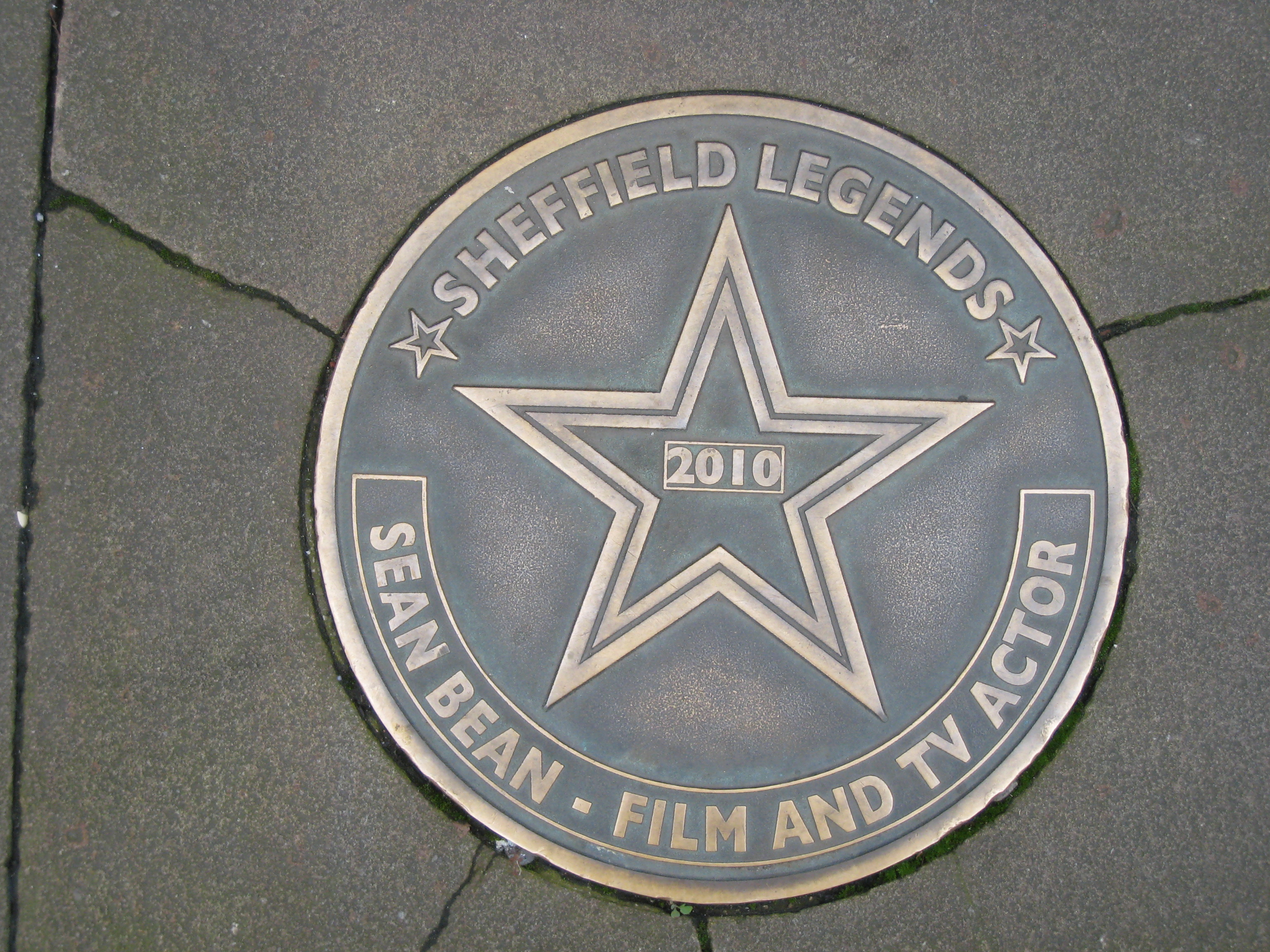 Commemorative star in the pavement outside Sheffield Town Hall: a "walk of fame" for people associated with the city. Sean Bean.